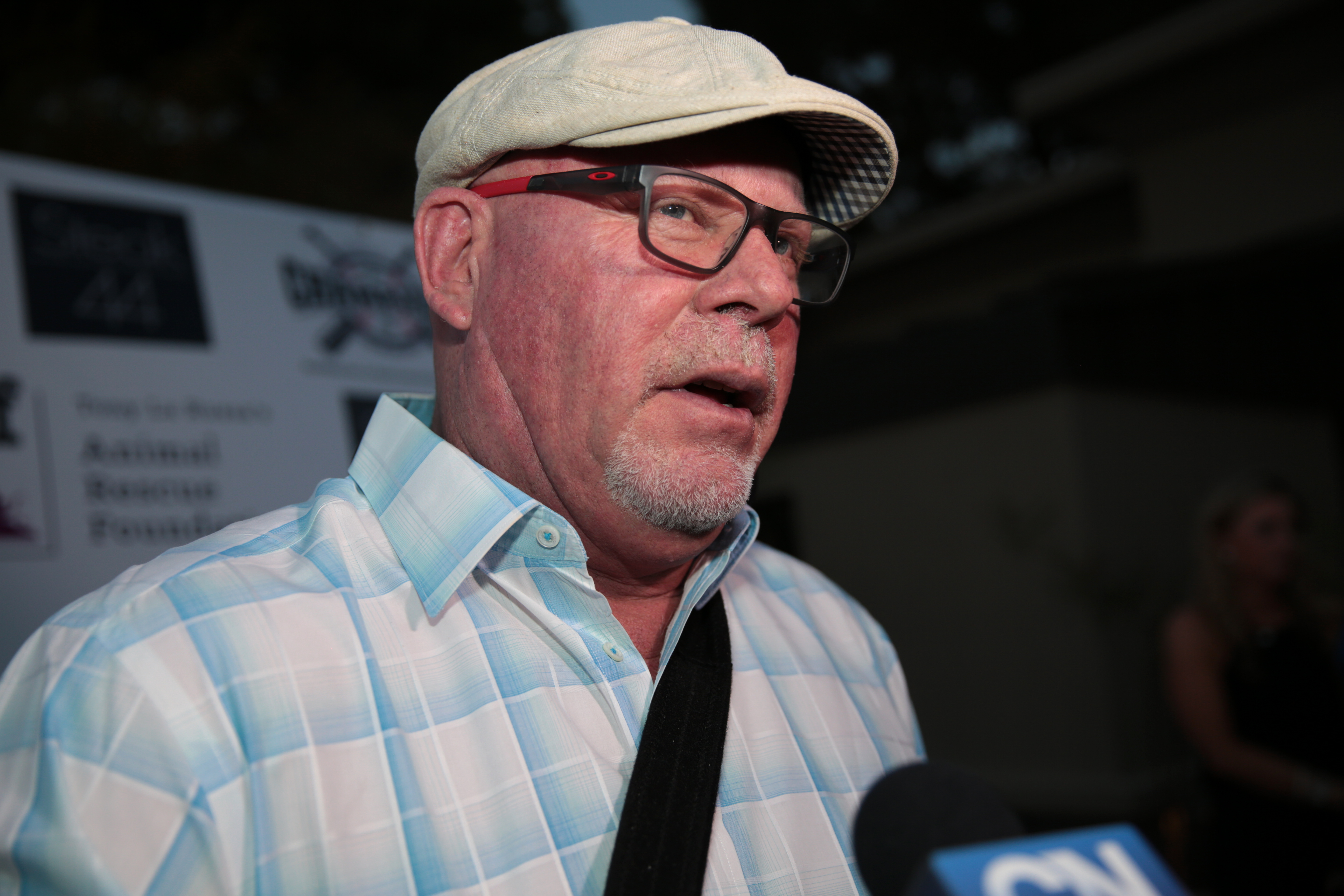 Bruce Arians on the red carpet at the Dinner of Champions hosted by Tony La Russa in Phoenix, Arizona.